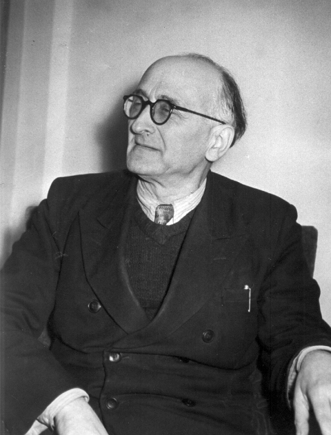 Pavle Ingorokva (1960s)